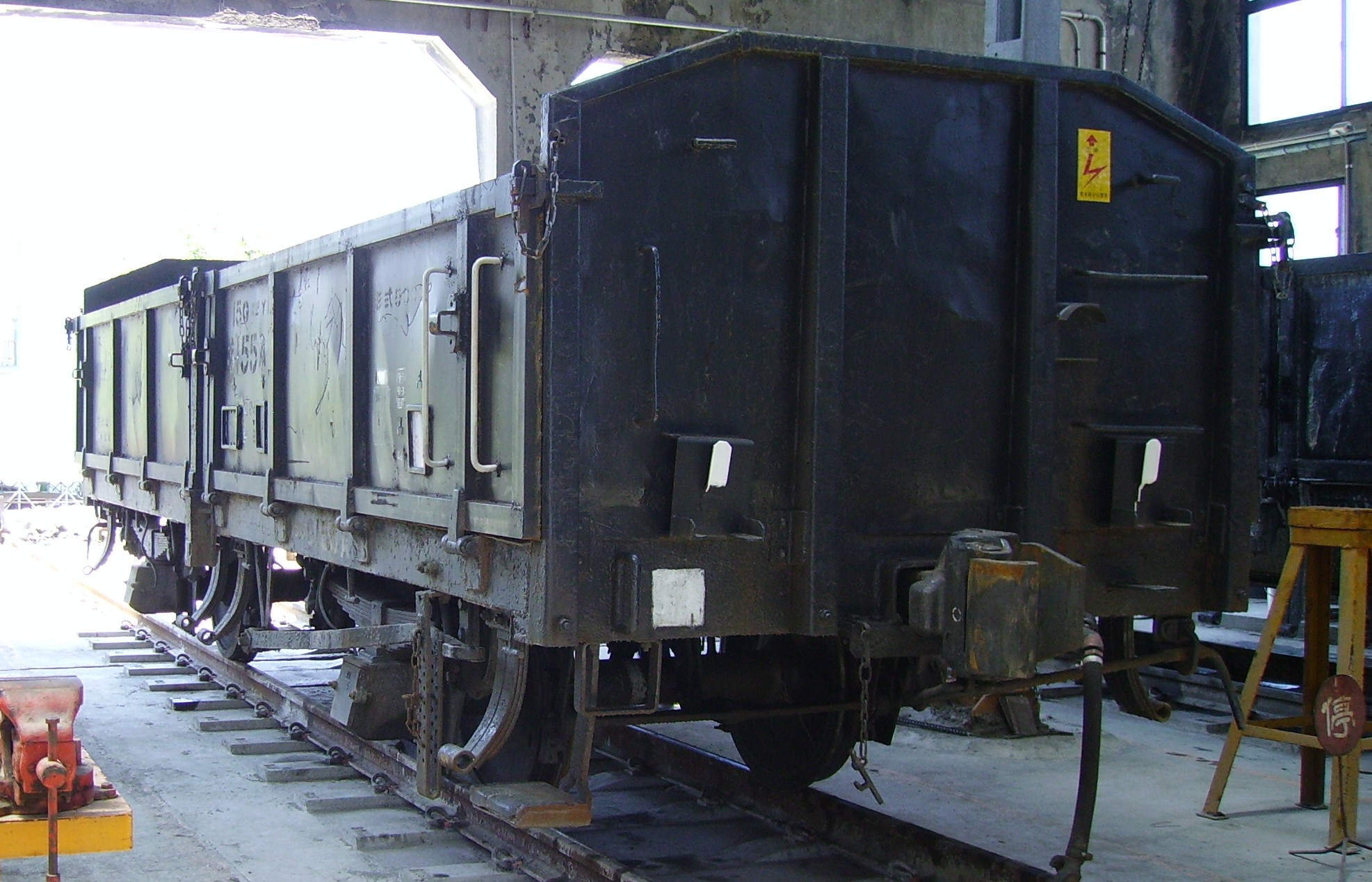 TRA freight car 15G8155A.